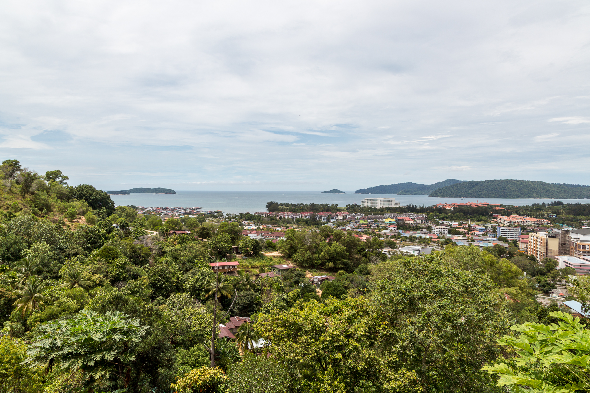 Kota Kinabalu (Sabah): Grace ville condomium, Grace Garden. In the background Sutera Harbour Golf and Pacific Sutera Hotel